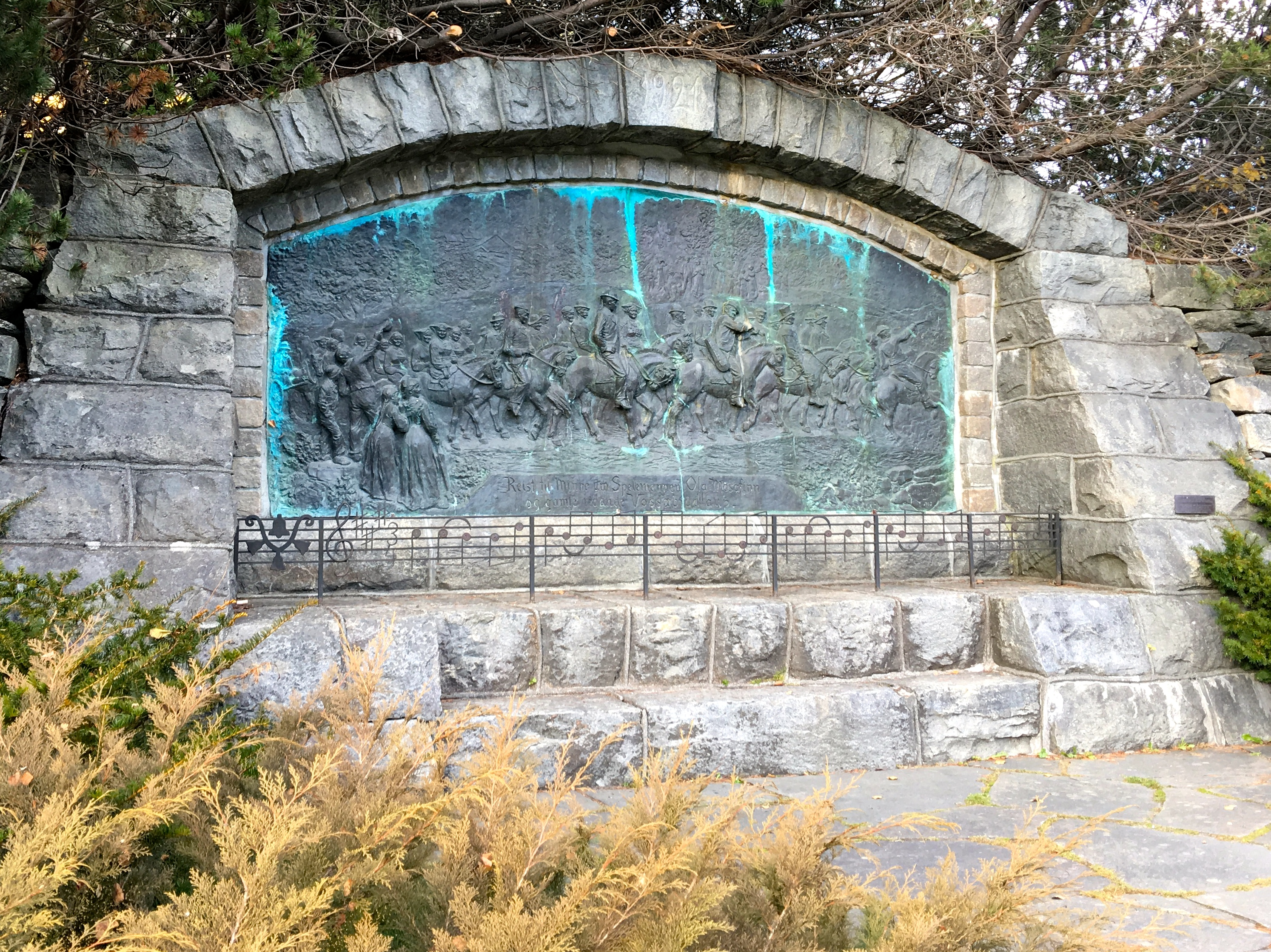 The relief "Ridande vossabrudlaup" by Nils Bergslien (1853–1928) was rected in 1921 in Vossevangen, Norway to the memory of the fiddle player Ola Mosefinn (1828–1912) and the traditional mounted wedding processions formerly customary to Voss. (Photo 25th of October 2016)